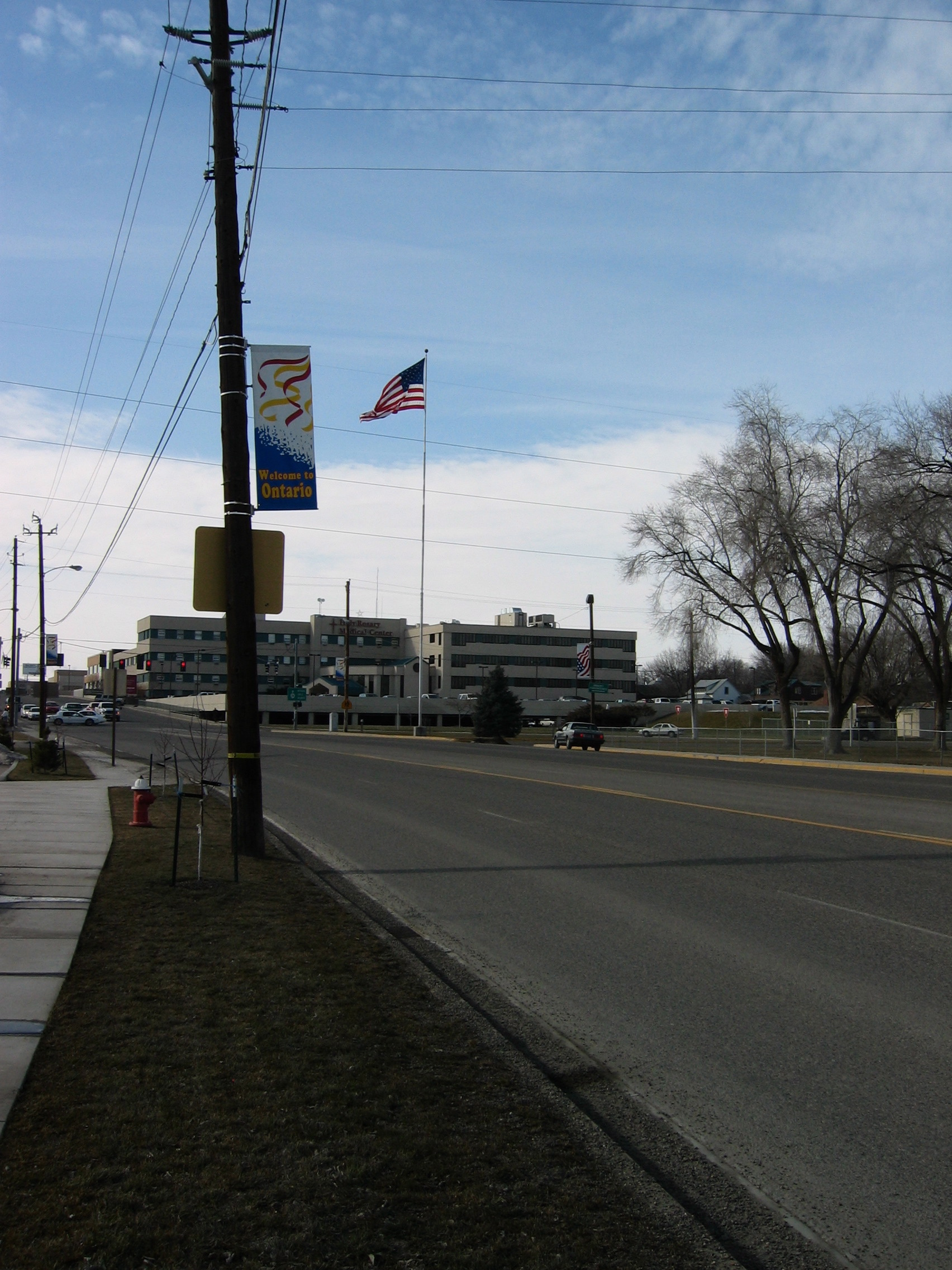 SW 4th Ave, Ontario, Oregon overlooking Holy Rosary Medical Center.